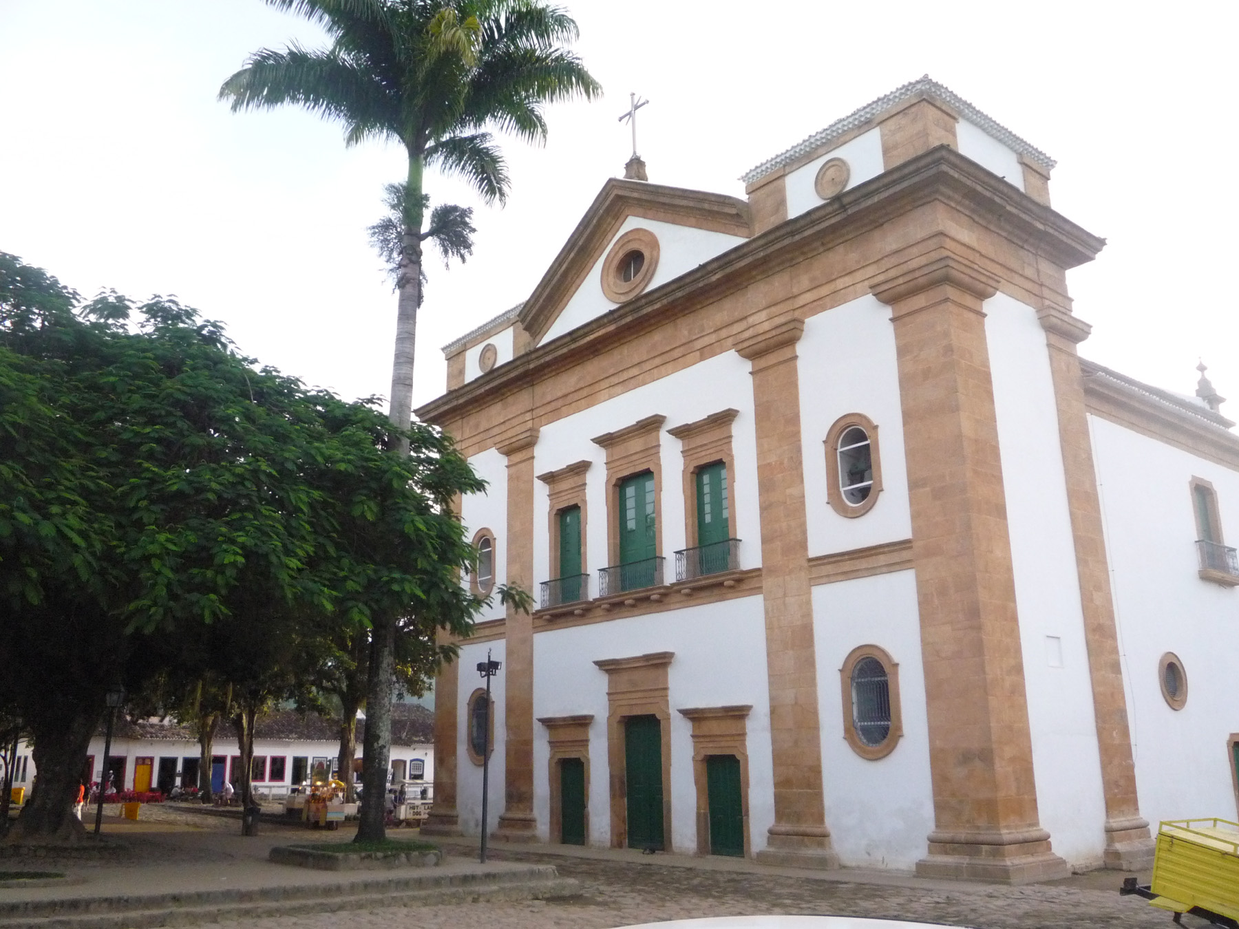 Main church (matriz) of Paraty, Brasil